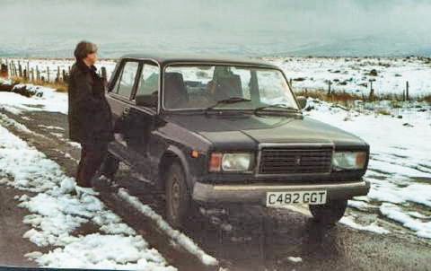 Lada Riva 1500 car (my property) photographed (my camera) near Allenheads on the Durham - Northumberland border, November 1990. Absolutely no copyright issues arise.